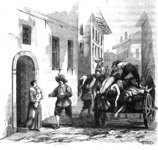 The most famous Italian historical romance,and the masterpiece of Alessandro Manzoni.